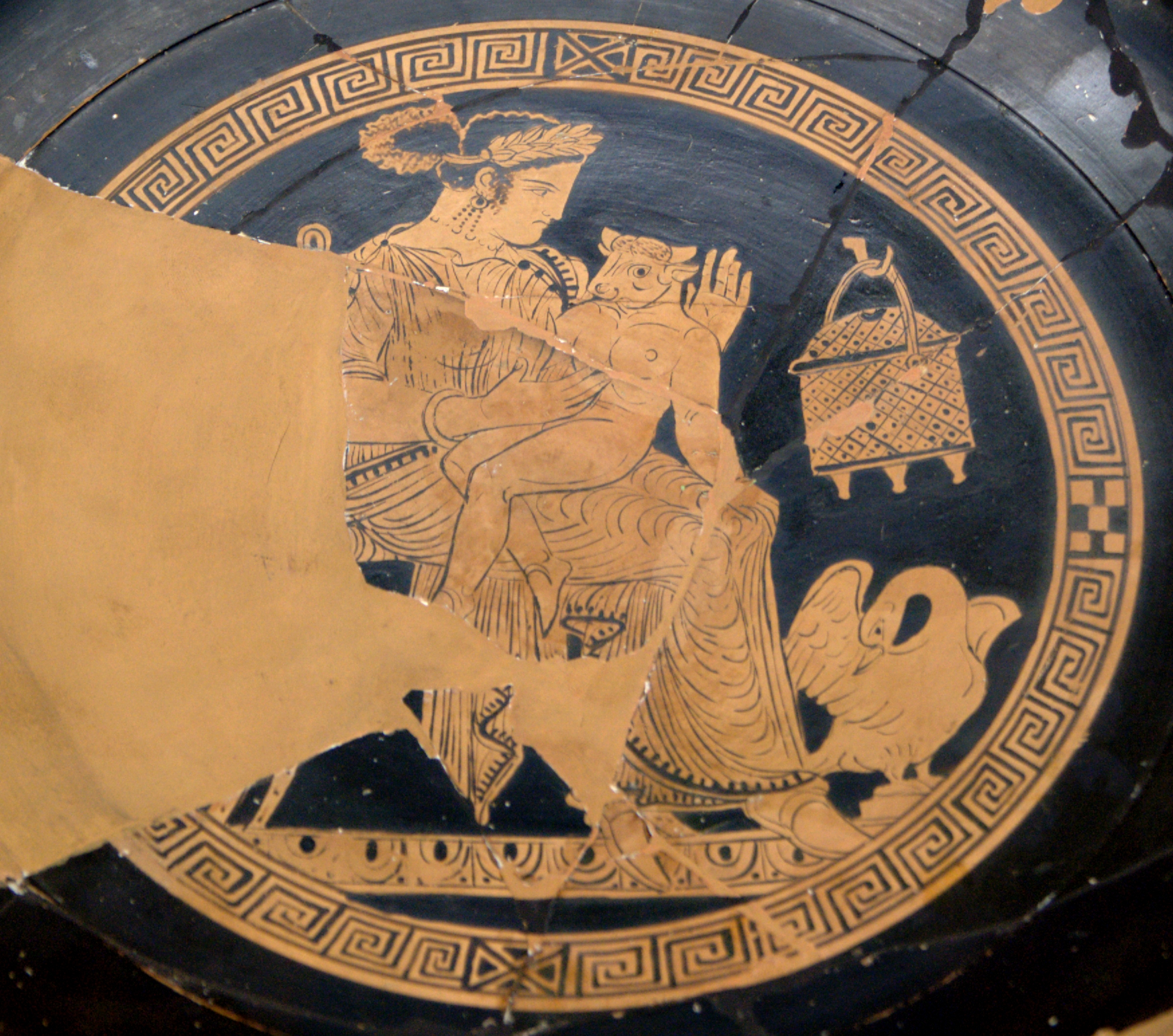 Pasiphaë and the Minotaur. Tondo of an Attic red-figure kylix, 340-320 BC. From Vulci.